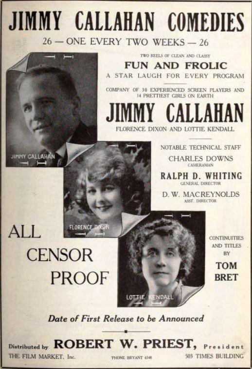 Advertisement for American comedy short films with Jimmy Callahan, Florence Dixon, and Lottie Kendall, on page 27 of the May 7, 1921 Exhibitors Herald.